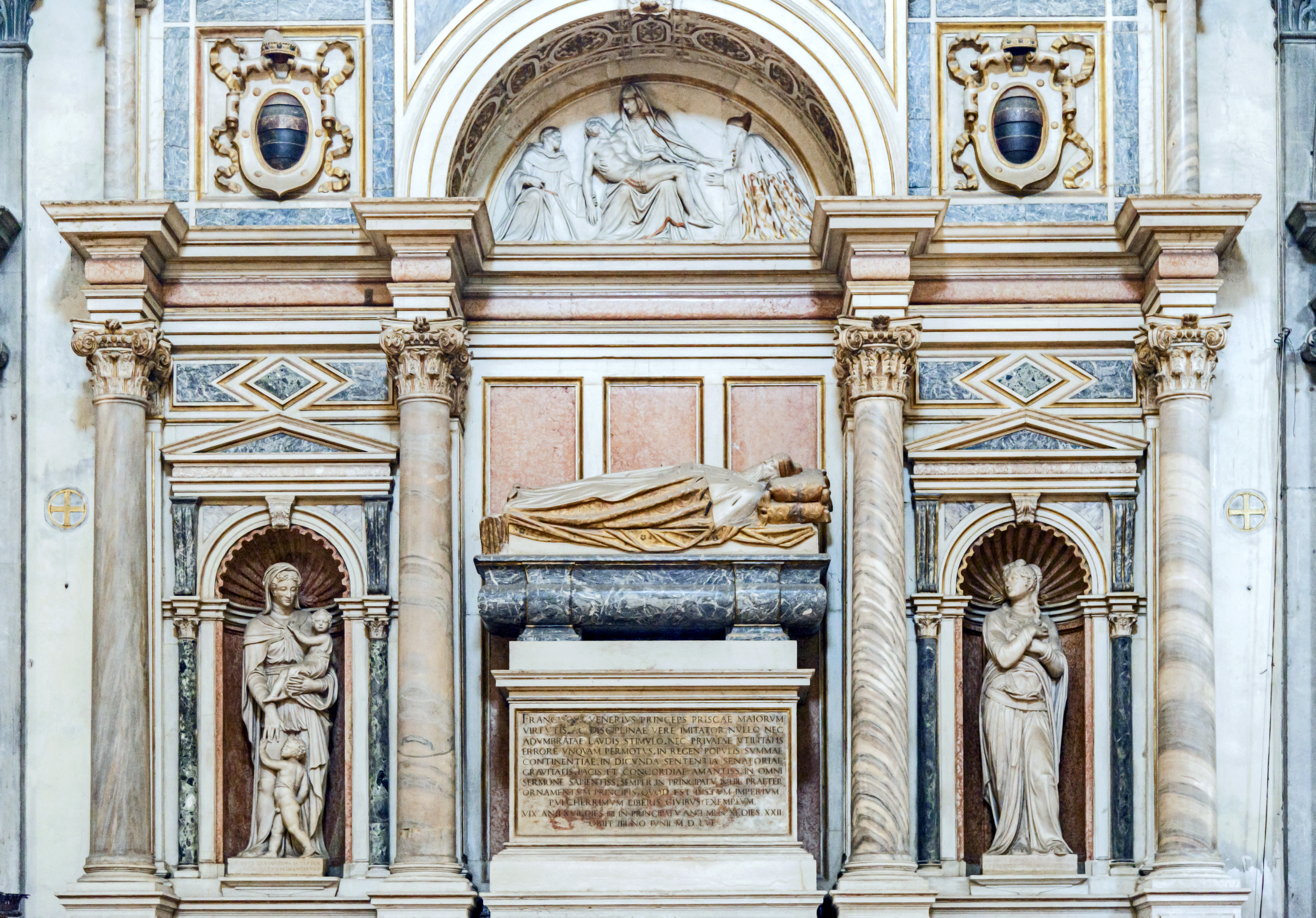 San Salvatore – Francesco Venier's monument by Jacopo Sansovino.